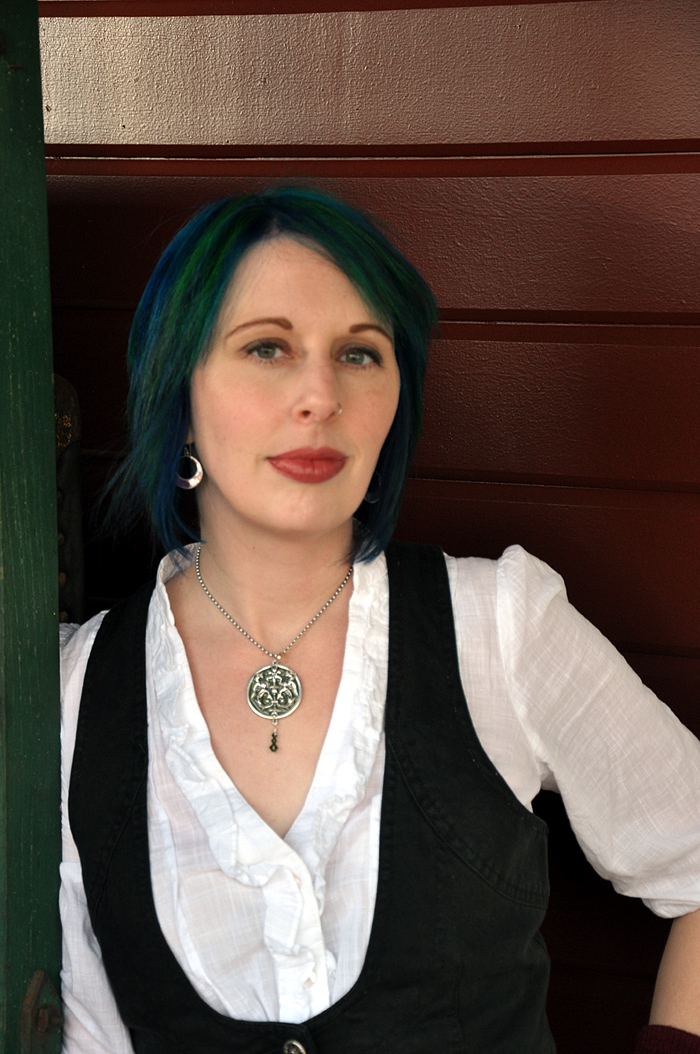 Cherie Priest author photo taken by Caitlin Kittredge in Snoqualmie, Washington, USA.